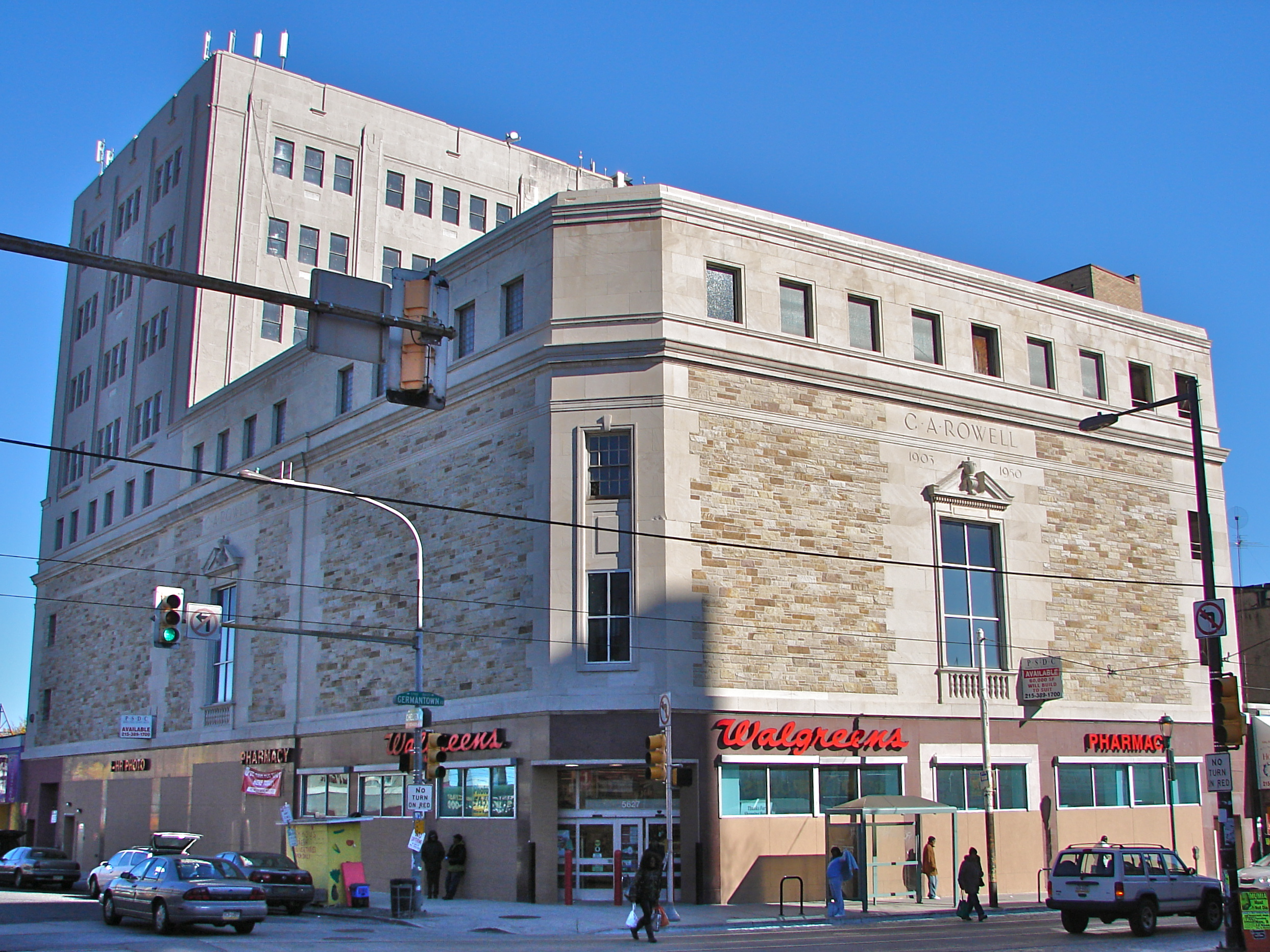 C. A. Rowell Department Store Building in Colonial Germantown Historic District on the NRHP. Located at 5627 Germantown Ave. in the Germantown neighborhood of Philadelphia. On the east corner of Germantown and Chelten Ave. Now a Walgreens. Coords 40.035862,-75.174444